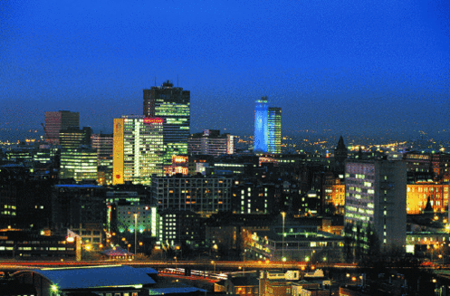 A photo taken of Manchester, around 5-10 years ago, facing north with the Mancunian Way at the bottom of the image and the city centre in the middle